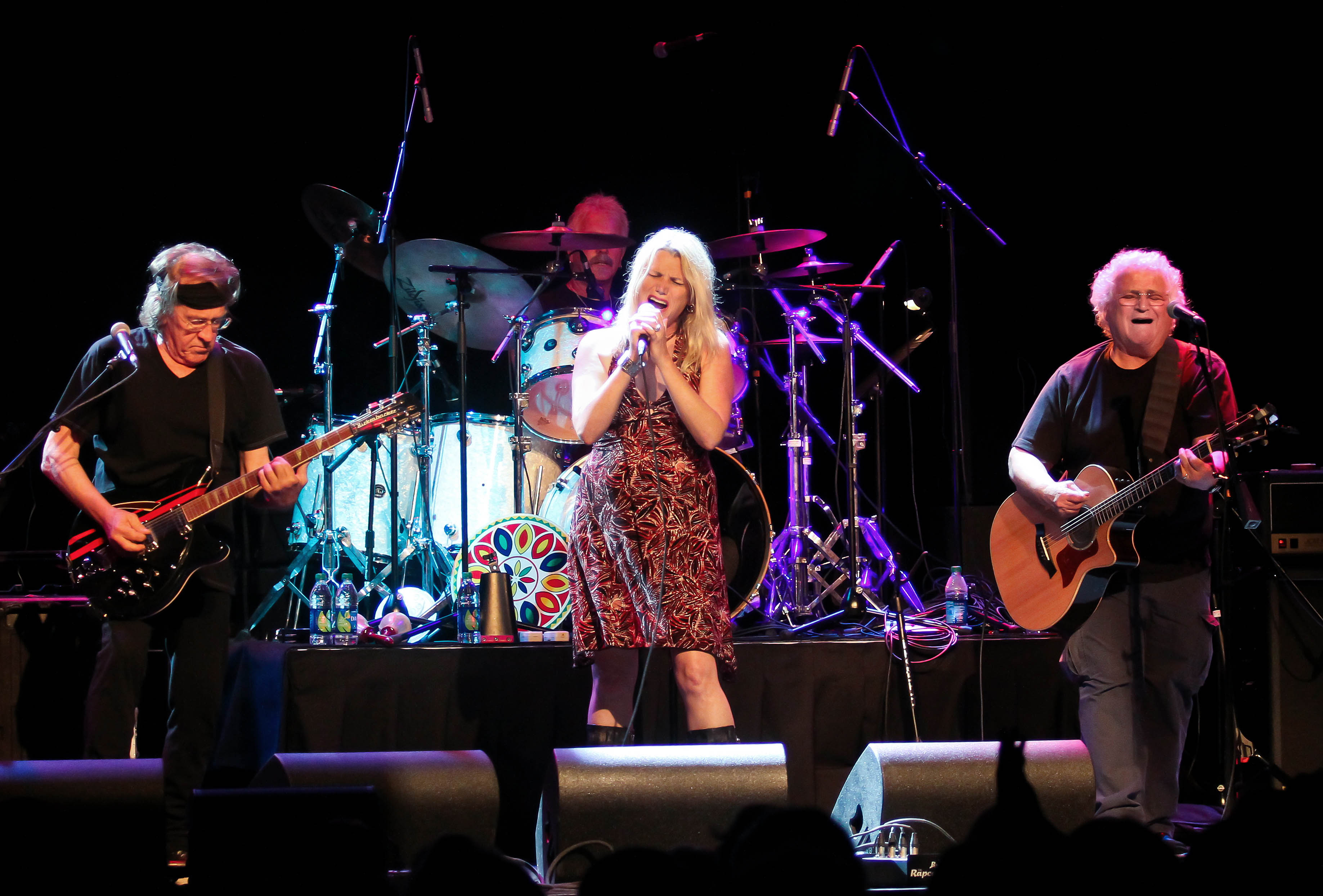 Jefferson Starship performing in concert in Jacksonville, Florida in May